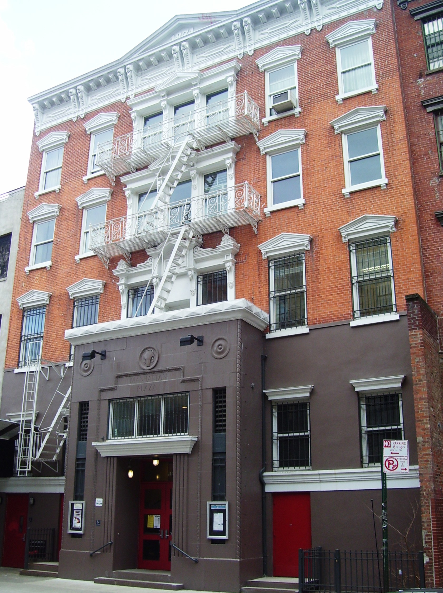 The La MaMa Annex Building at 66 East 4th Street (66-68) between Second Avenue and the Bowery in the East Village neighborhood of Manhattan, New York City houses La Mama's Ellen Stewart Theater and Archives, and facilities of the Millennium Film Workshop. The building was formerly known as "Turn Hall", where the New-York Turn-Verein ("New York Gymnastics Club"), founded in 1849, met. The building also hosted the first professional Yiddish-language play in the United States, a production of The Witch in 1882. It was also the Ukranaian Labor Home (1925-1937), a dancehall called "Manhattan Plaza", Biltmore Studios and ABC Stage. (Source: "Fourth Street" on New York Songlines and "66-68 East 4th Street" on Fourth Arts Block)